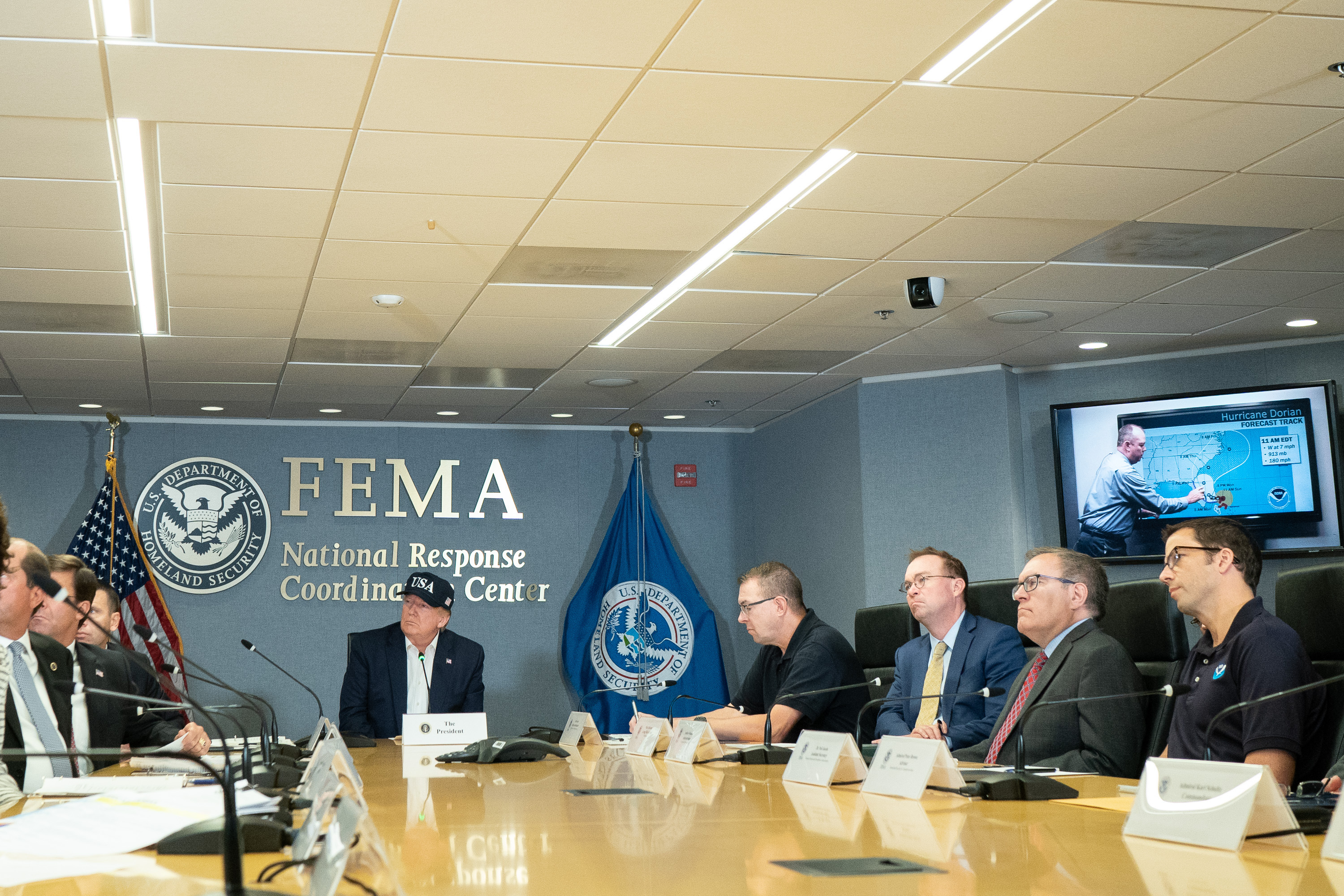 President Donald J. Trump, joined by Acting Secretary of the Department of Homeland Security Kevin McAleenan and Acting FEMA Administrator Pete Gaynor, attends a briefing Sunday, Sept. 1, 2019, on the current directional forecast of Hurricane Dorian at the Federal Emergency Management Agency (FEMA) headquarters in Washington, D.C. (Official White House Photo by Shealah Craighead)